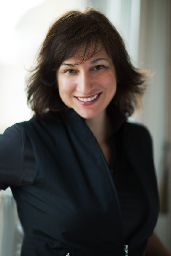 Ksenija Bulatovic, Serbian Architect CEO